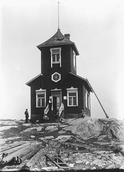 Lohm pilot station in Korpo, Finland.